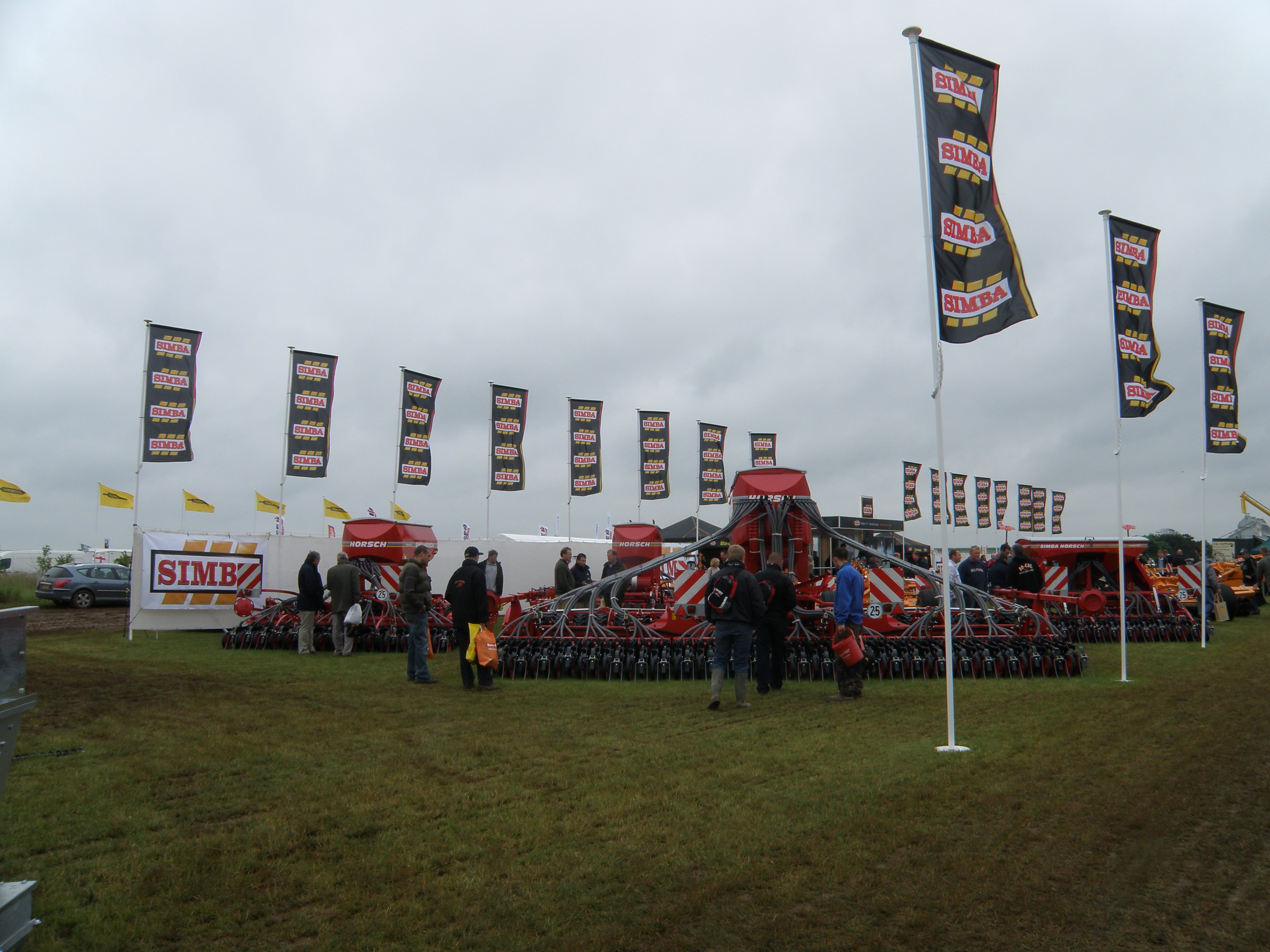 Simba (Horsch) Machinery stand, Cereals 2010, near to Chrishall Grange, England, Great Britain. The Sleaford agricultural engineering company, Simba showing a range of heavy cultivation and seed drills along with an array of flags to highlight their stand in what is normally an arable field. – The Cereals event is a trade showcase for arable farmers and associated industries. Displays of machinery, products, latest technologies and trial plots of cereals are all laid out on a temporary show ground that moves between different host farms around Cambridgeshire, Hertfordshire and next year Lincolnshire